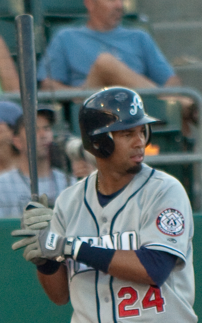 Ed Rogers of the Reno Aces at Raley Field